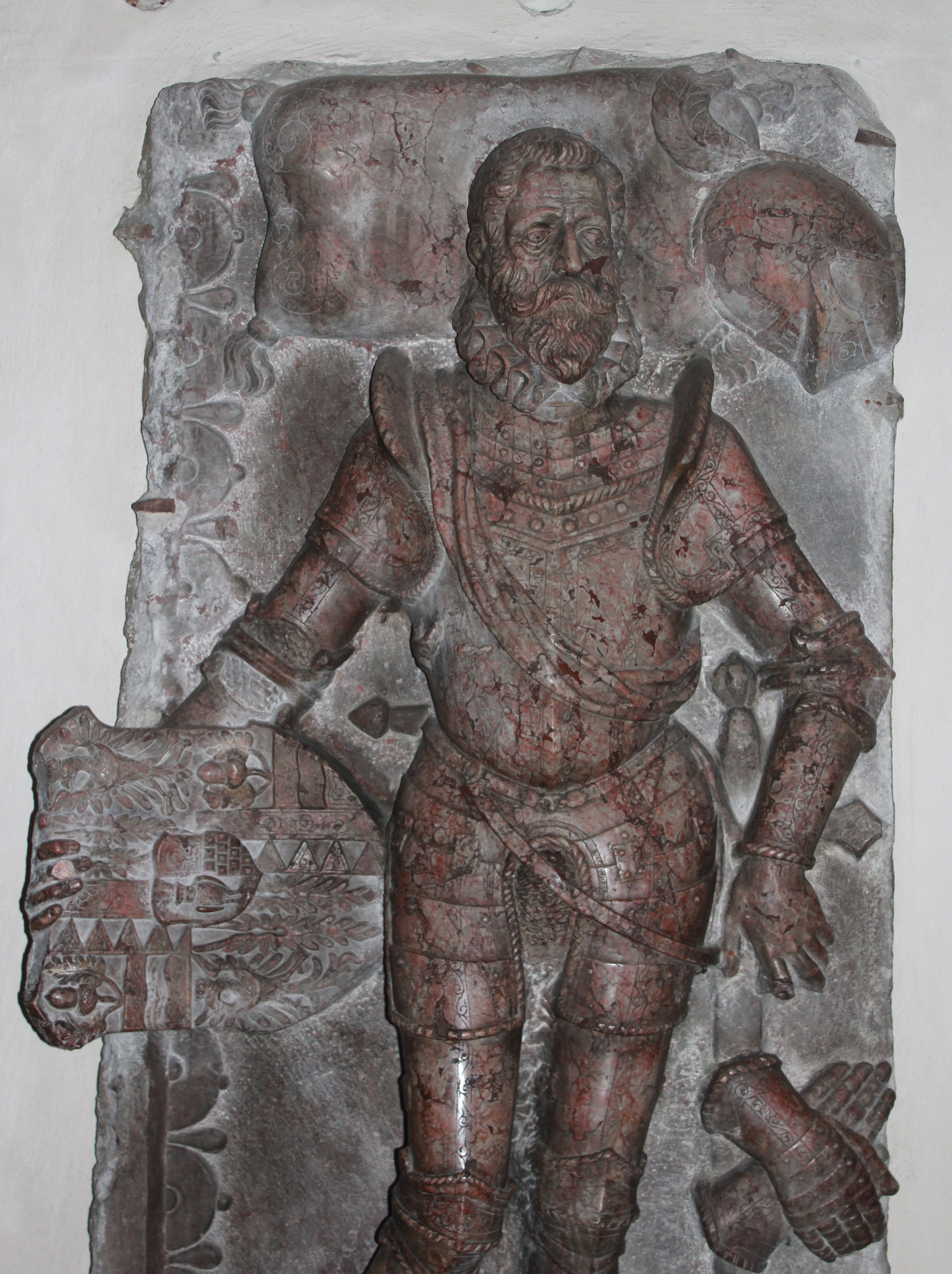 Parish church St. Jakob in Villach - epitaph